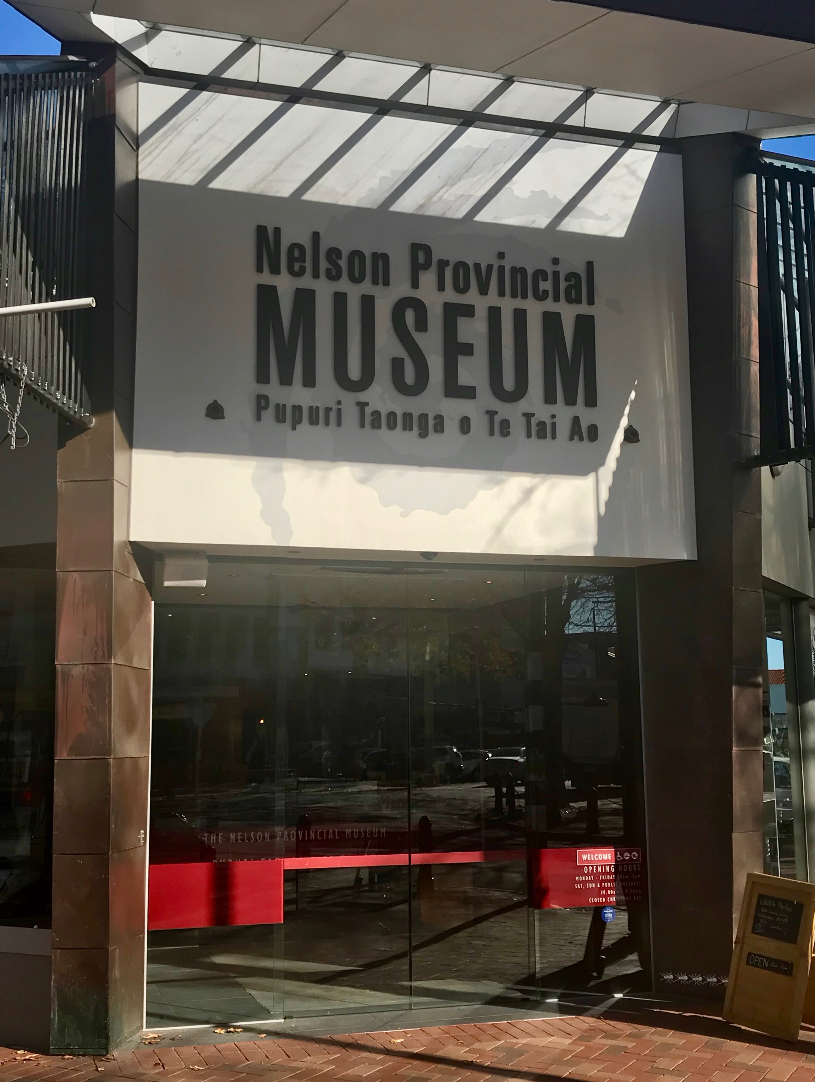 Nelson Provincial Museum entrance corner of Trafalgar and Hardy St, Nelson